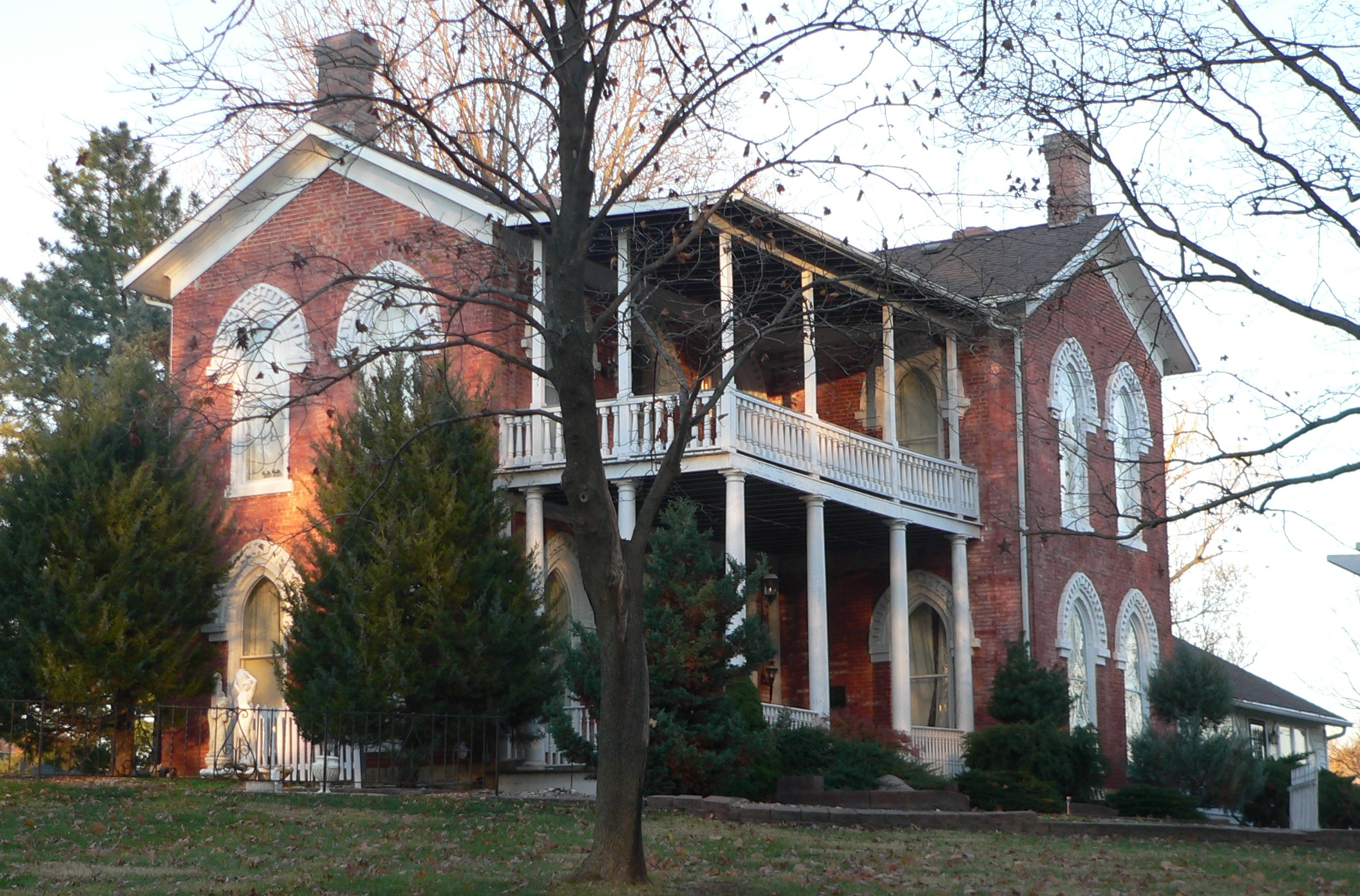 James B. Weaver House, located at 102 Weaver Road in Bloomfield, Iowa; now the Weaver House bed-and-breakfast. View is from the southwest.